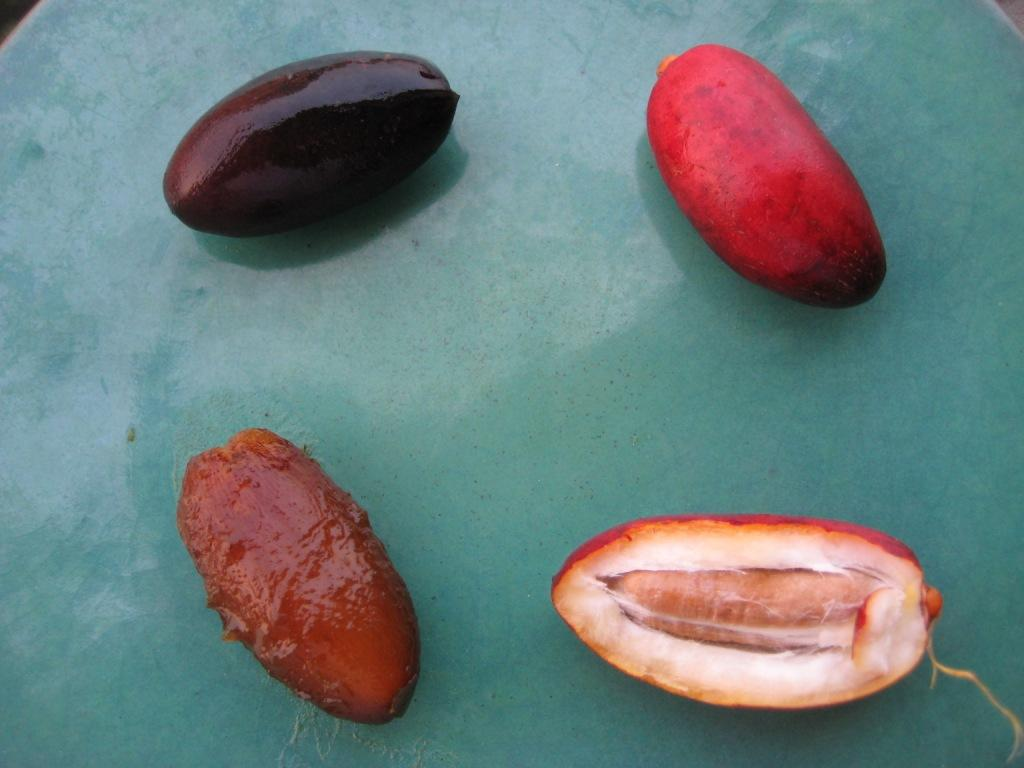 I took this photo of dates I bought from a street cart in Cairo, 10 Nov 2008.